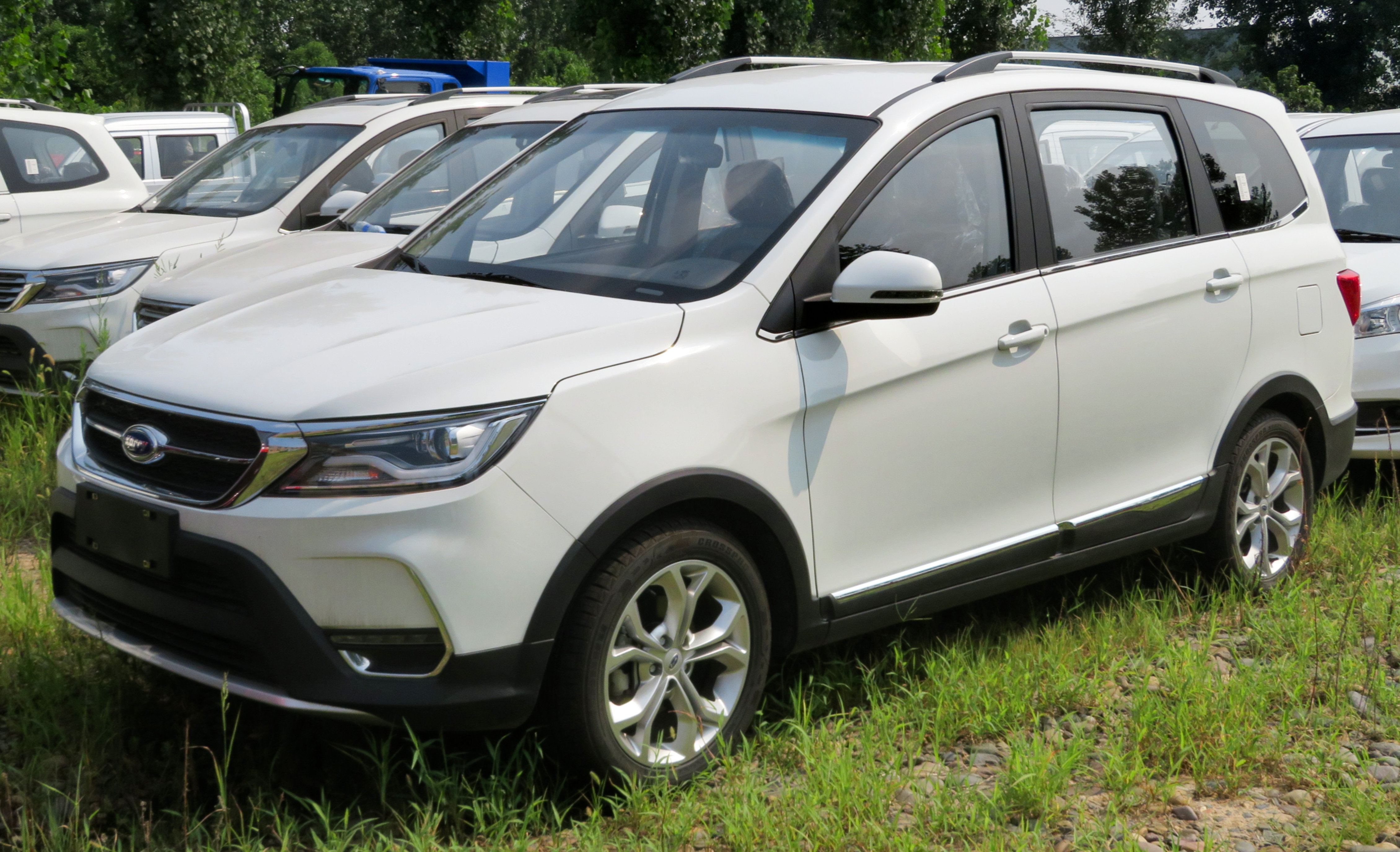 A 2018 Chery Karry K60 photographed at Guanlinzhen, in Luoyang, Henan province, China